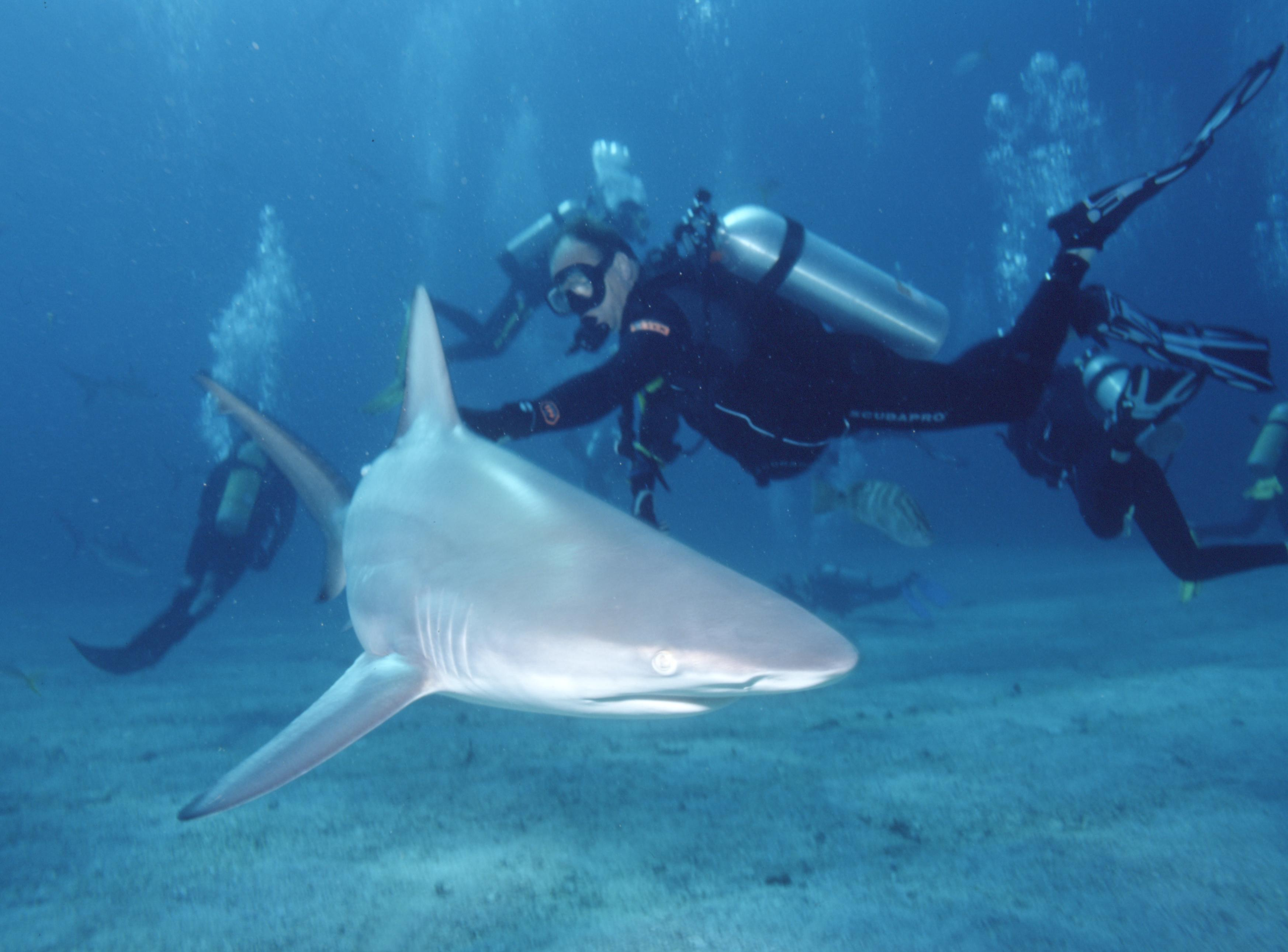 Description Carcharhinus limbatus Date2000SourceWalers Cay BahamasAuthorAlbert KokPermission (Reusing this file) Public Domain Carcharhinus limbatus